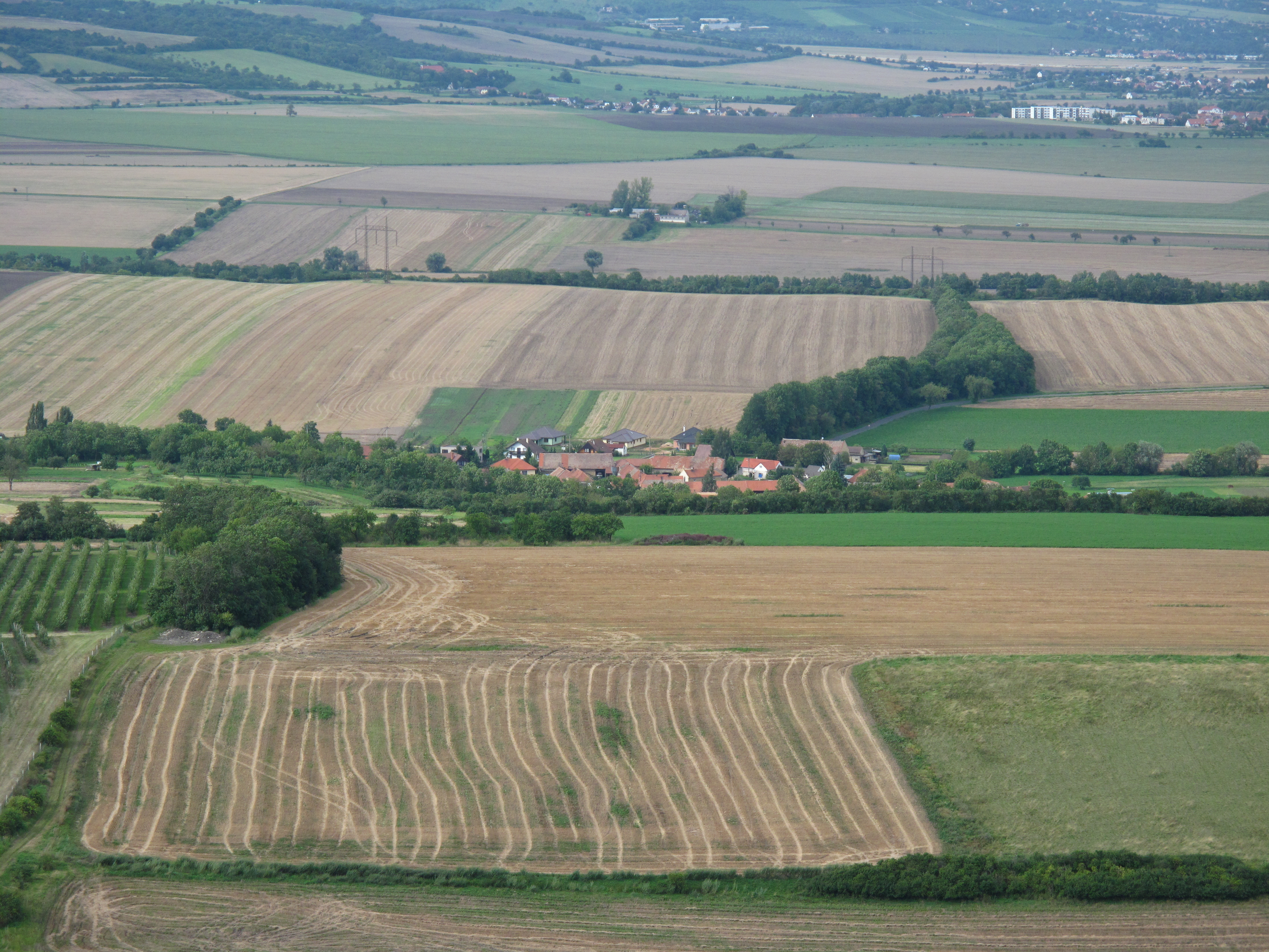 Sedlec village as seen from Hazmburk Castle (ruin), Litoměřice District, Czech Republic.